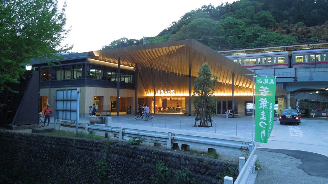 Takaosanguchi Station shortly after rebuilding